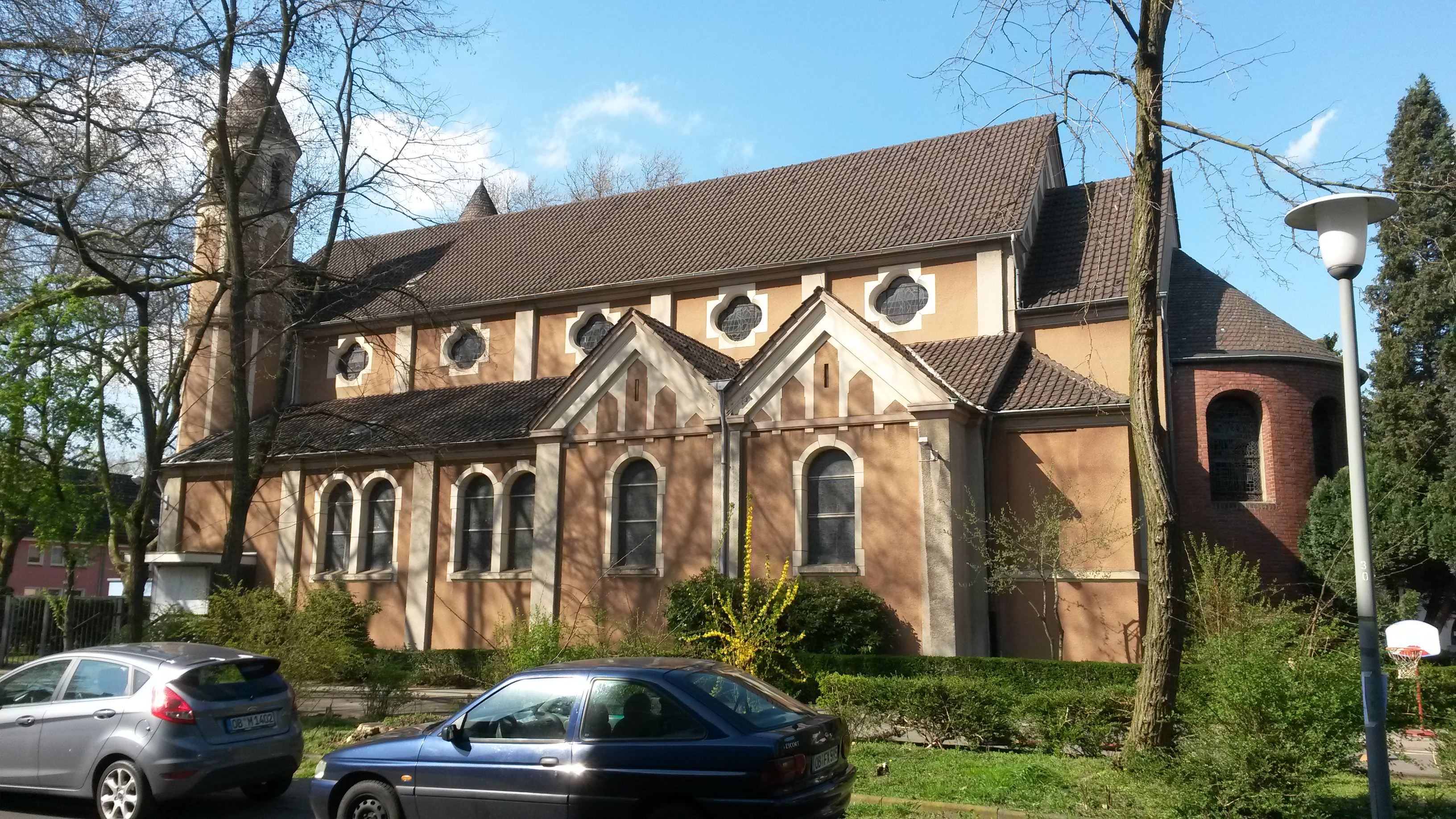 St. Peter's Church in Alstaden, Oberhausen (Germany)